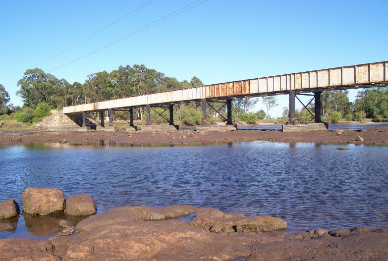 Train bridge over the stream Arroyo Solís Chico at Paso de las Toscas, between Parque de la Plata and Estación La Floresta, Canelones Department, Uruguay.